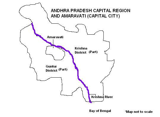 Map showing Andhra Pradesh Capital Region spread across Guntur and Krishna districts with the city of Amaravati on the banks of River Krishna